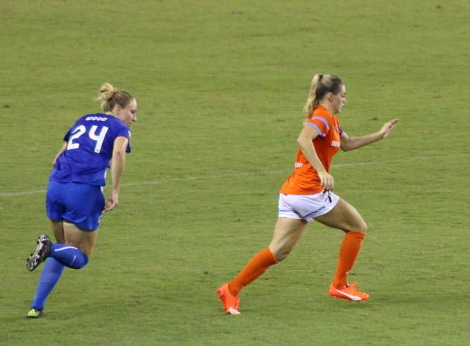 August 30, 2015 at BBVA Compass Stadium in Houston, Texas.